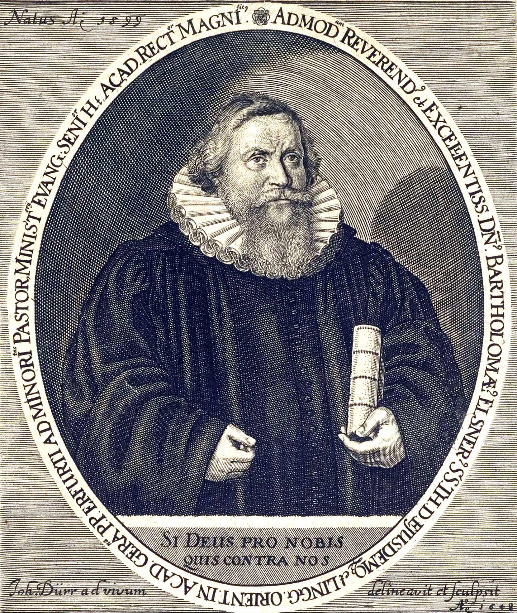 Bartholomäus Elsner (1596/99-1662), German protestant Theologian